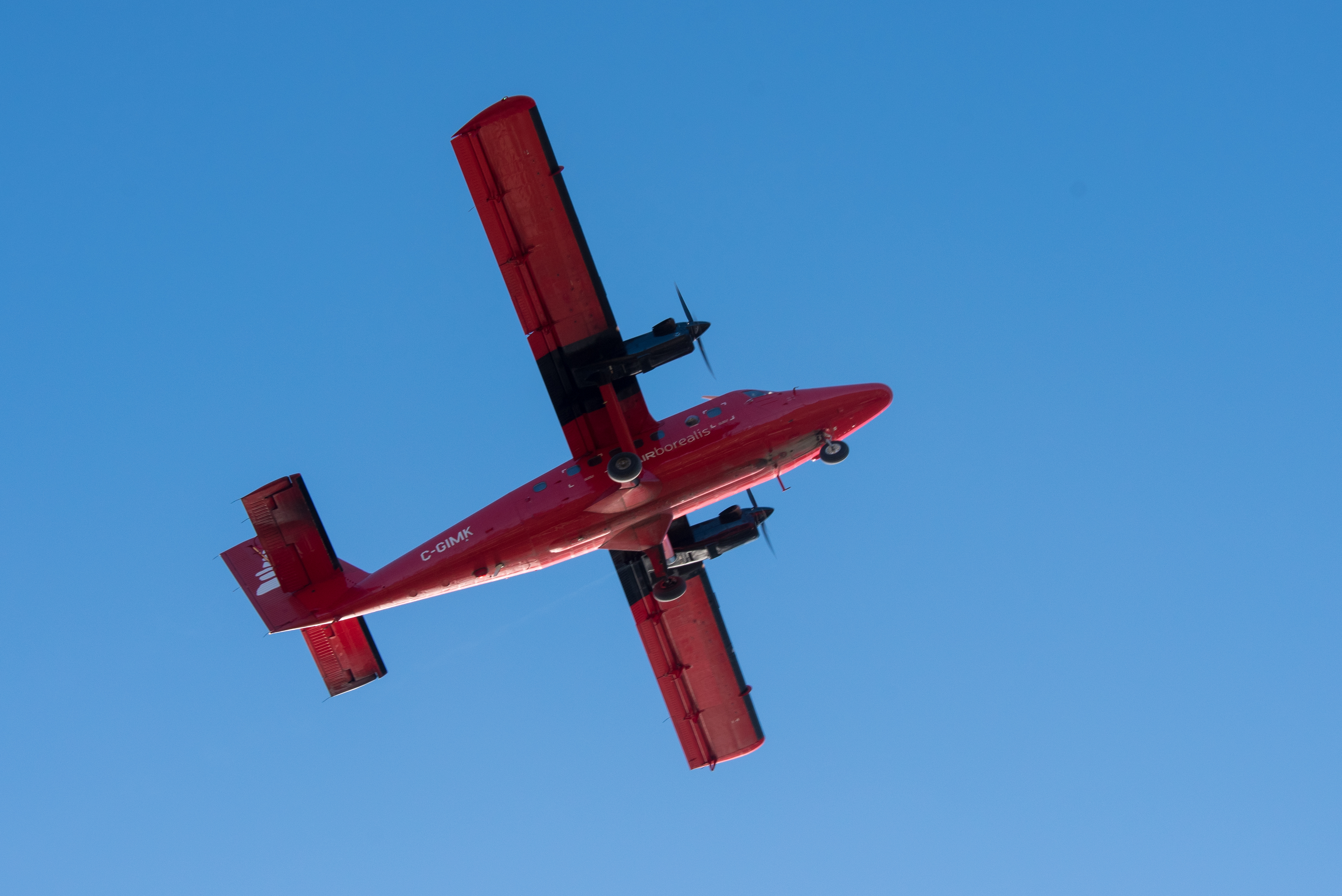 De Havilland Canada DHC-6-300 Twin Otter C-GIMK, owned and operated by Air Borealis, taking off from Nain Airport, Labrador Canada on October 2, 2017.